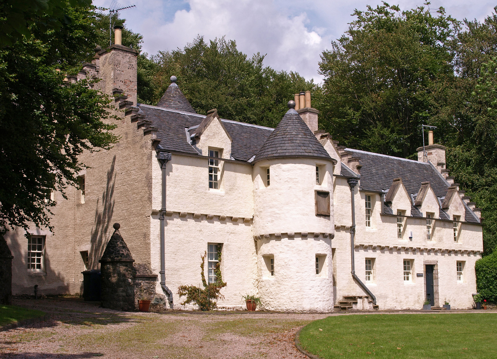 Gatehead, Formakin Estate